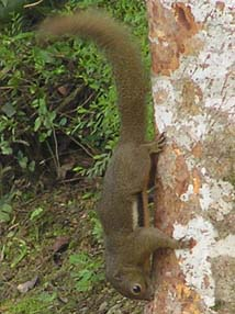 A Plaintain Squirrel (Callosciurus notatus) photographed in Singapore.